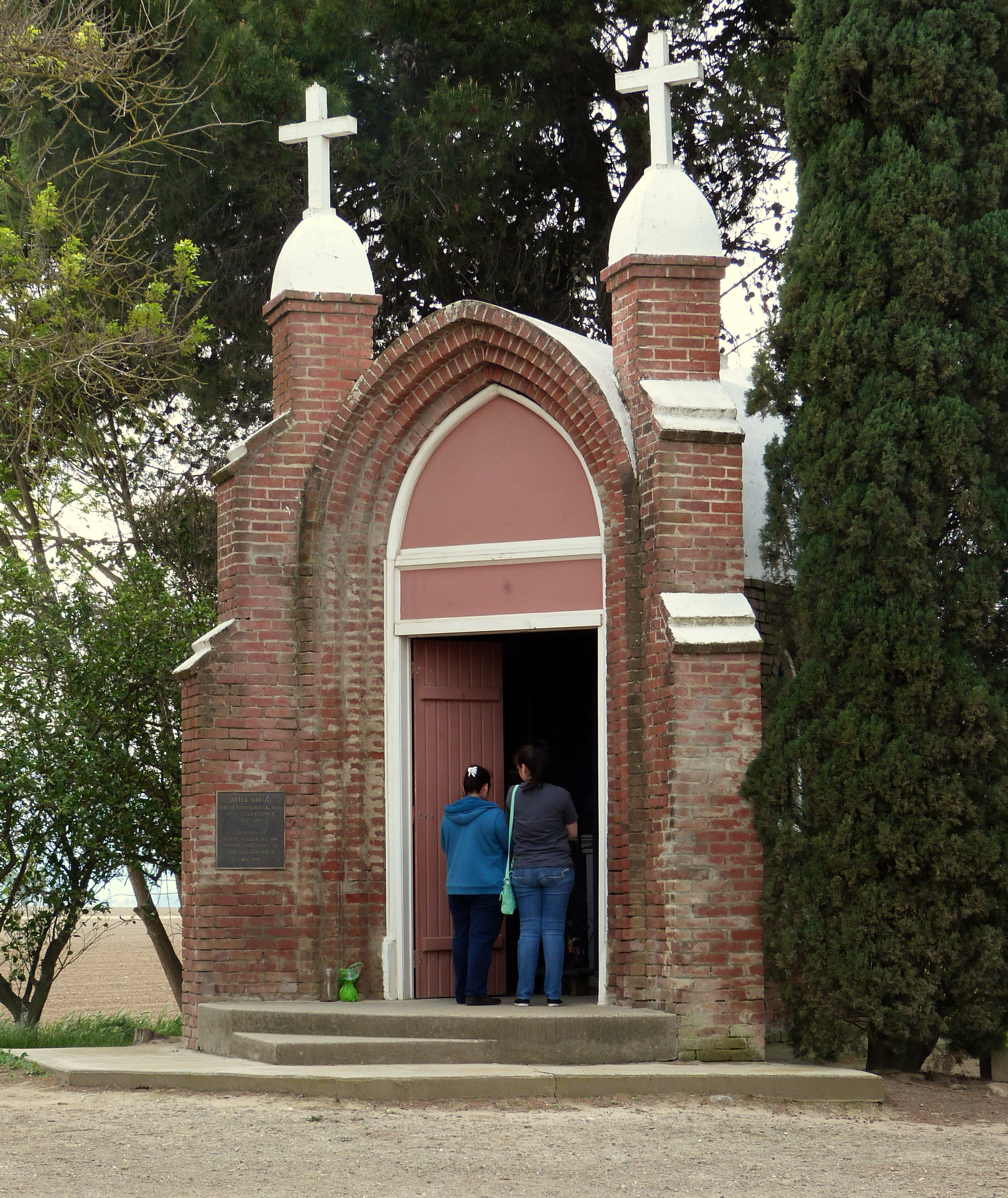 The historic Grand Island Shrine, built in 1883 and dedicated to Our Lady of Sorrows, is located on California State Route 45 near Colusa, California, United States. The shrine is listed on the US National Register of Historic Places.